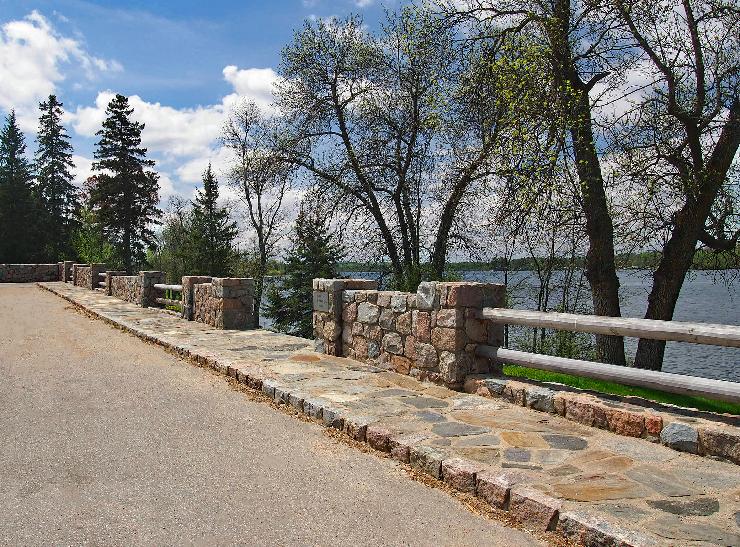 Orr Roadside Parking Area overlooking Orr Bay of Pelican Lake, U.S. Route 53, Orr, Minnesota, USA. Viewed from the northeast.